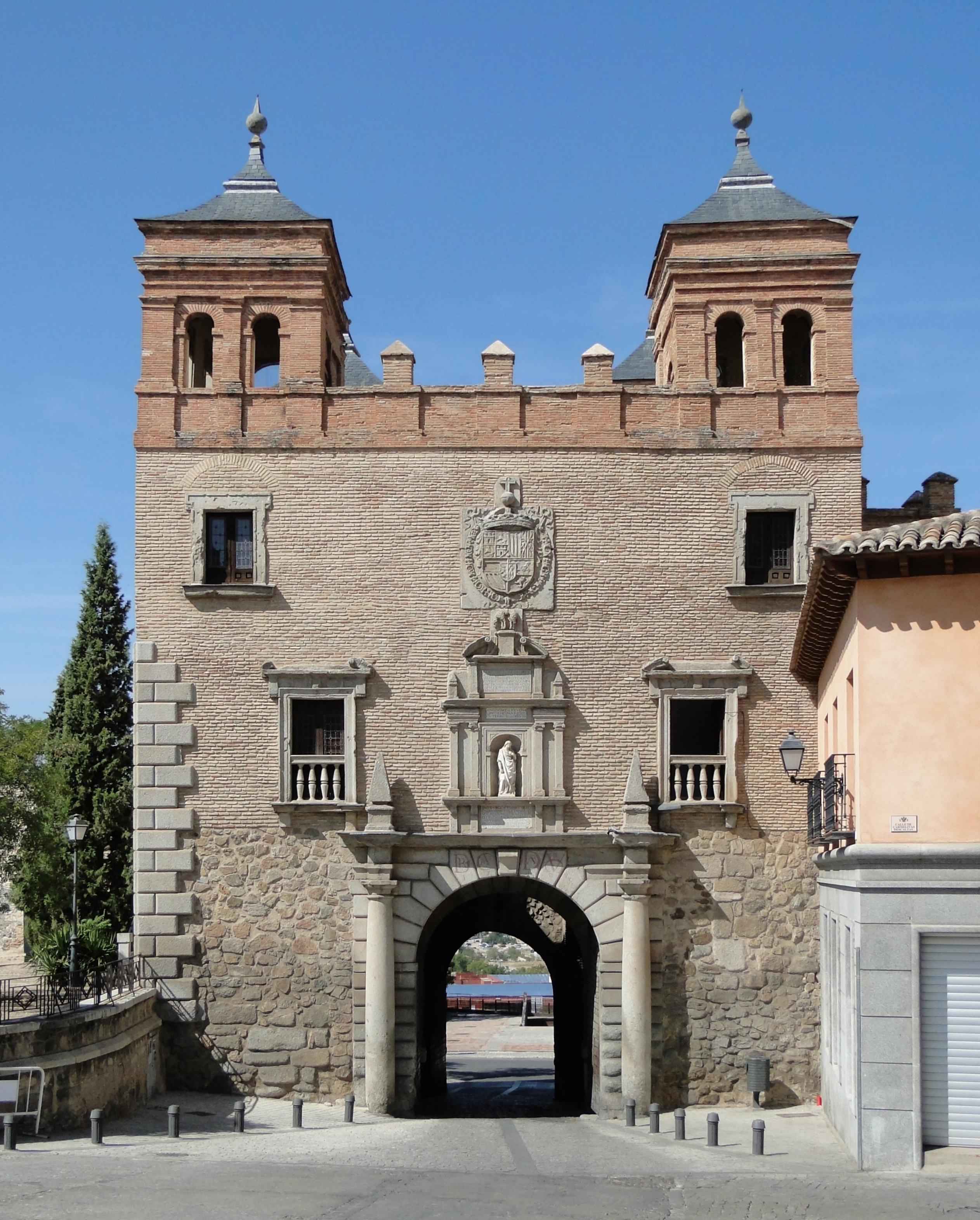 Cambrón Gate, Toledo, Spain